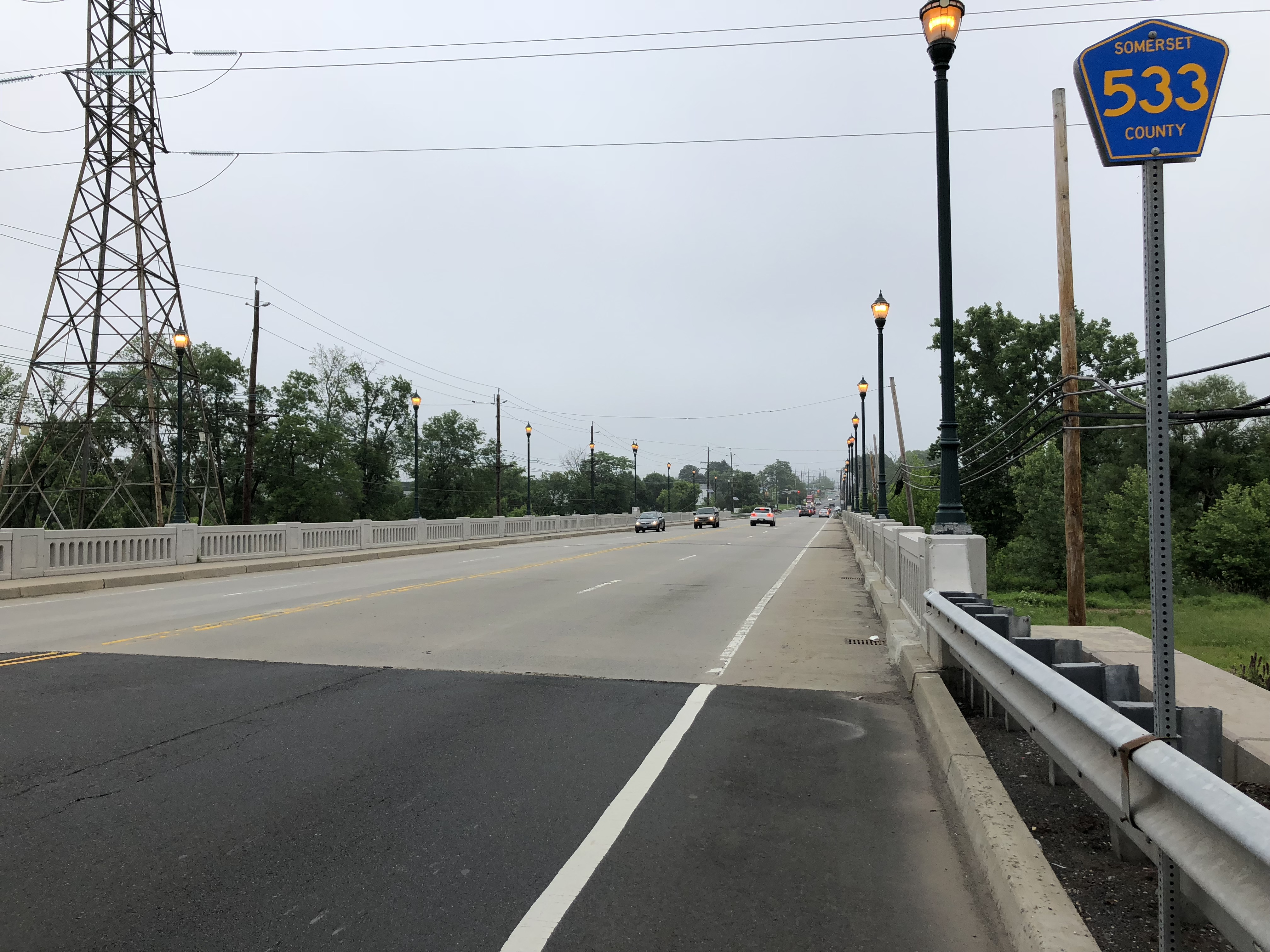 View north along Somerset County Route 533 (Main Street) just south of the Van Veghten's Bridge over the Raritan River in Manville, Somerset County, New Jersey